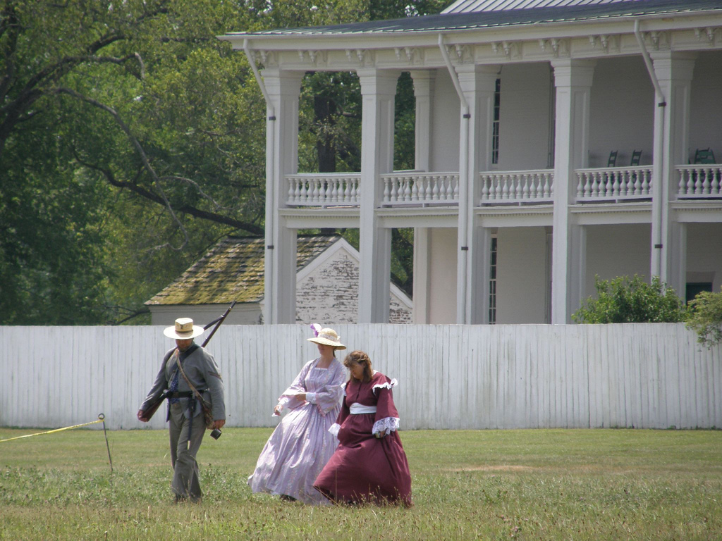 Author: Kraig McNutt May be used freely without attribution to me.